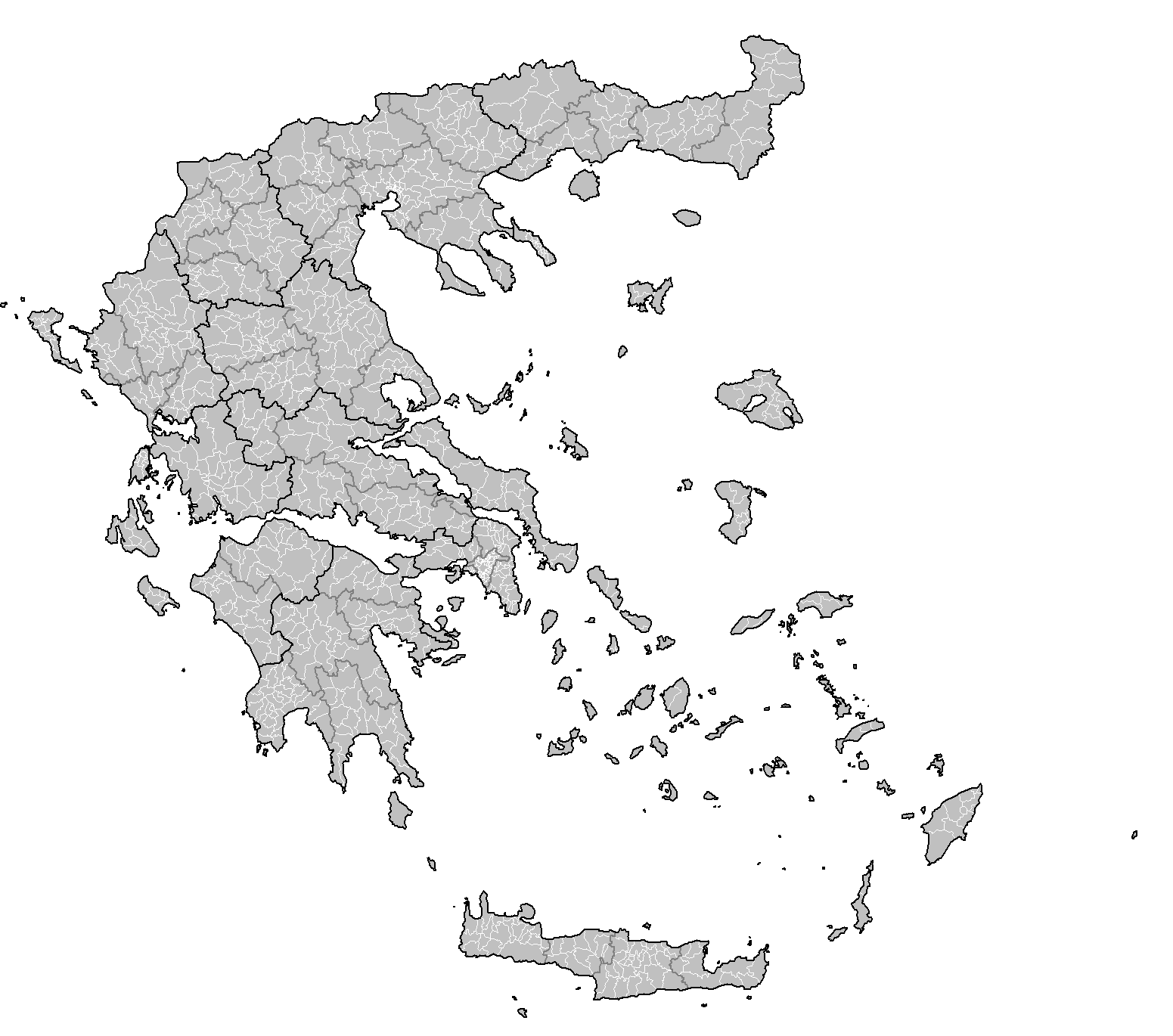 Map of the municipalities of Greece. Created by Rarelibra 23:33, 4 October 2007 (UTC) for public domain use, using MapInfo Professional v8.5 and various mapping resources. NOTE: The map is incomplete due to the unavailable data for East Attica prefecture. This will be resolved soon.